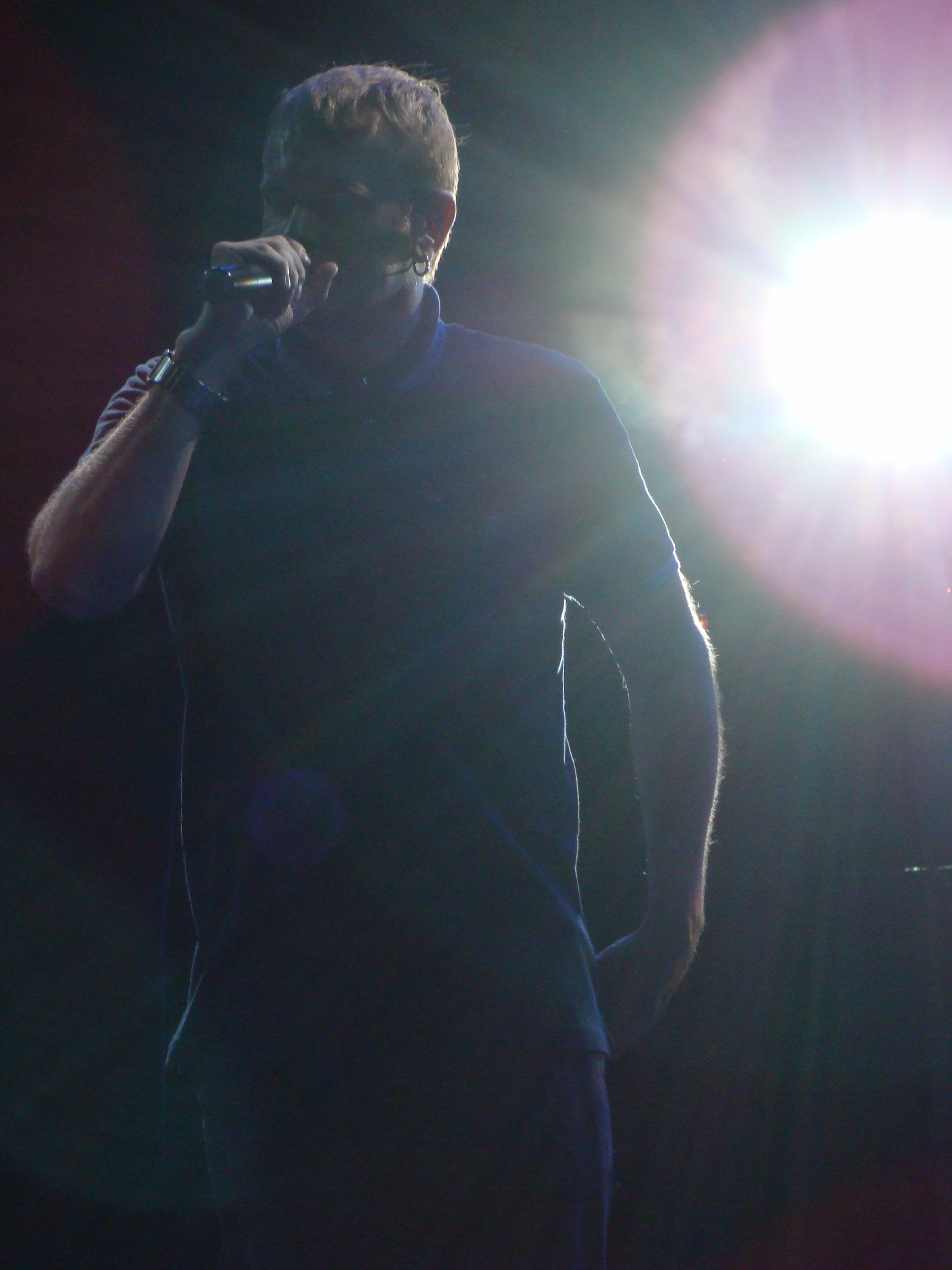 The frontman of "Tartak" Sashko Polozhynskyi during the performance at Zashkiv Festival 2011.